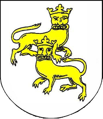 Heraldic lions of Erican Dynasty of SwedenPlace: Sweden